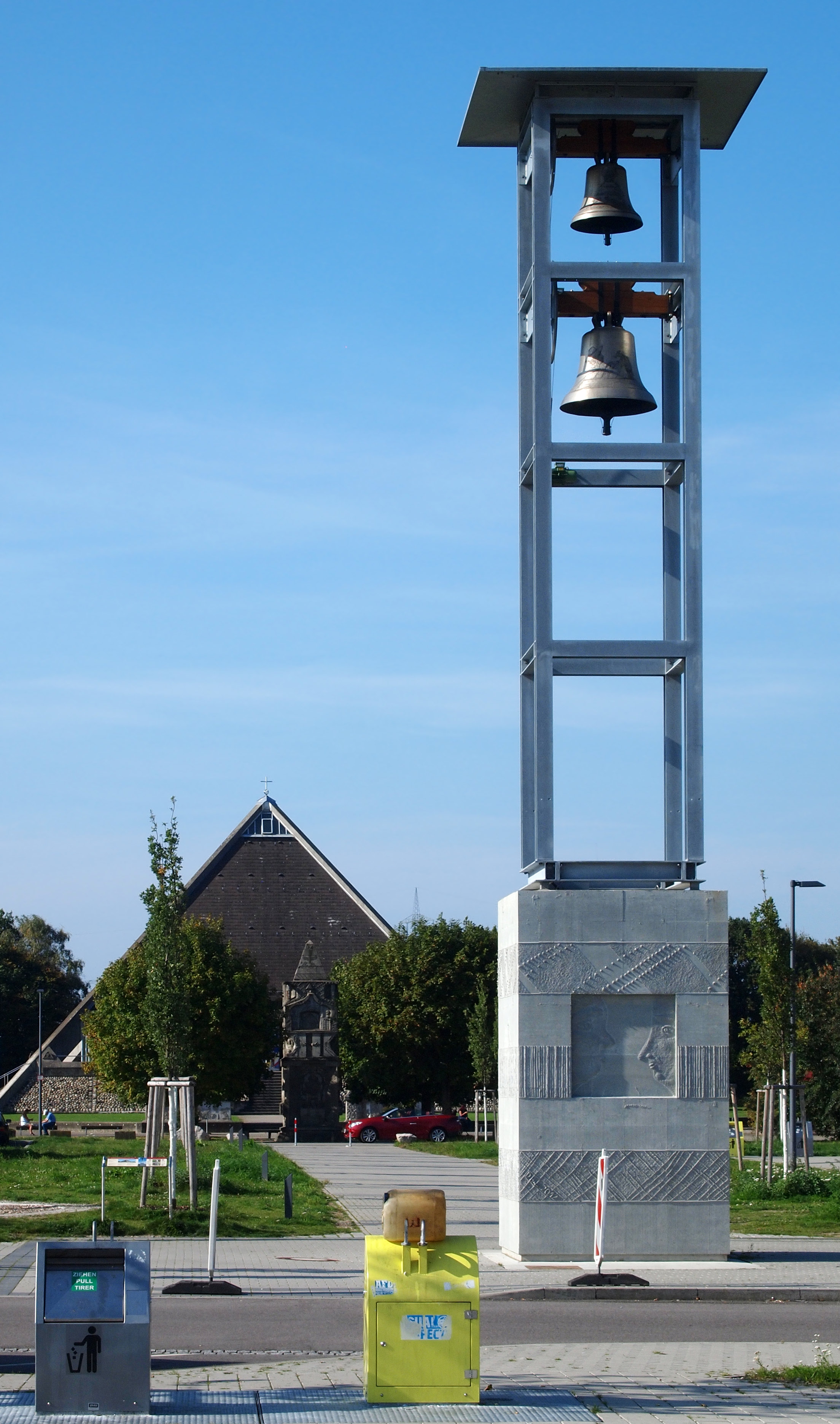 The bell tower of the road church Baden-Baden had been built in Freiburg for the Pope's visit in 2011.